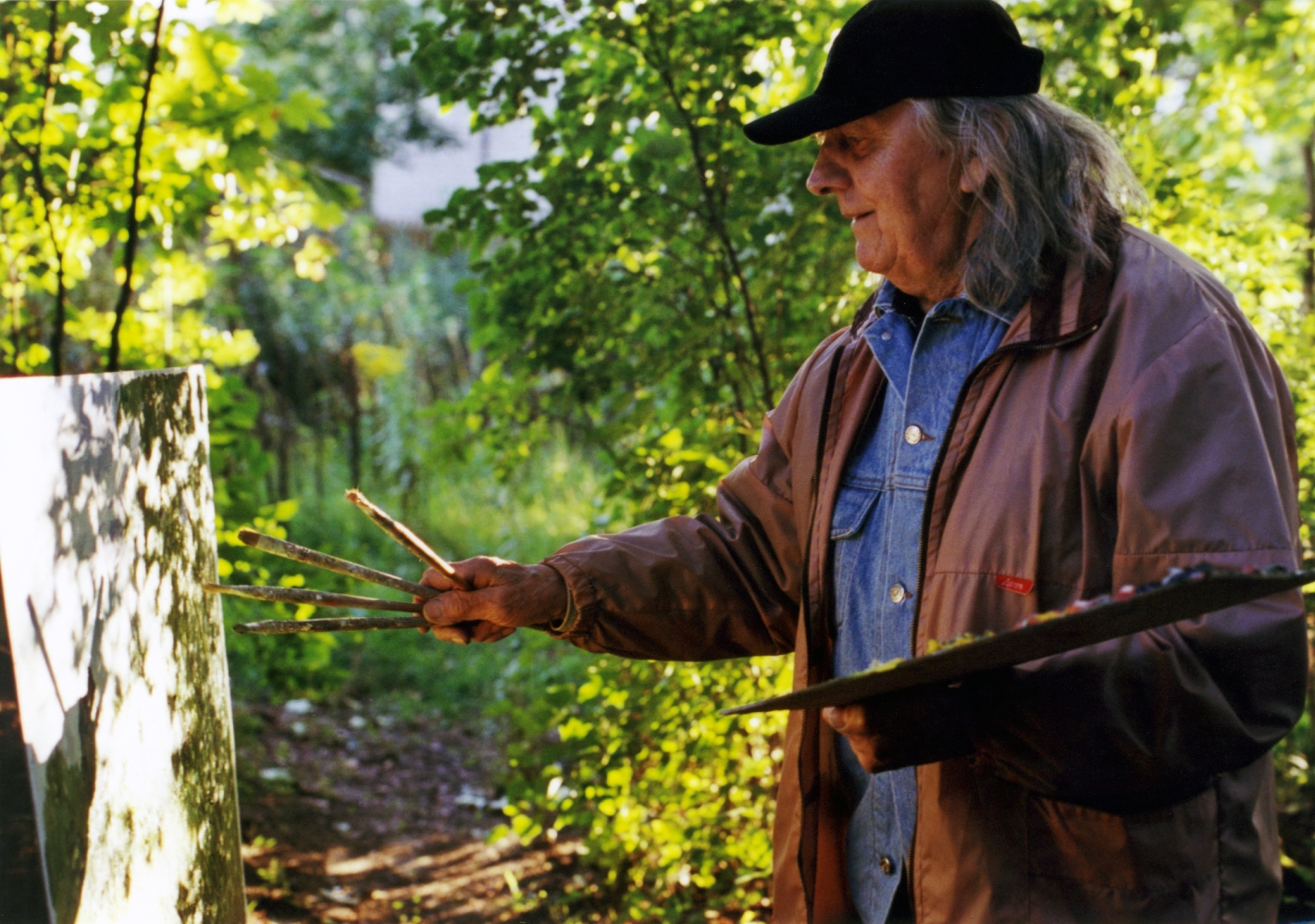 Painter Edgars Vinters at work 2006Latviešu: Gleznotājs Edgars Vinters 2006 g. plenēra darbā